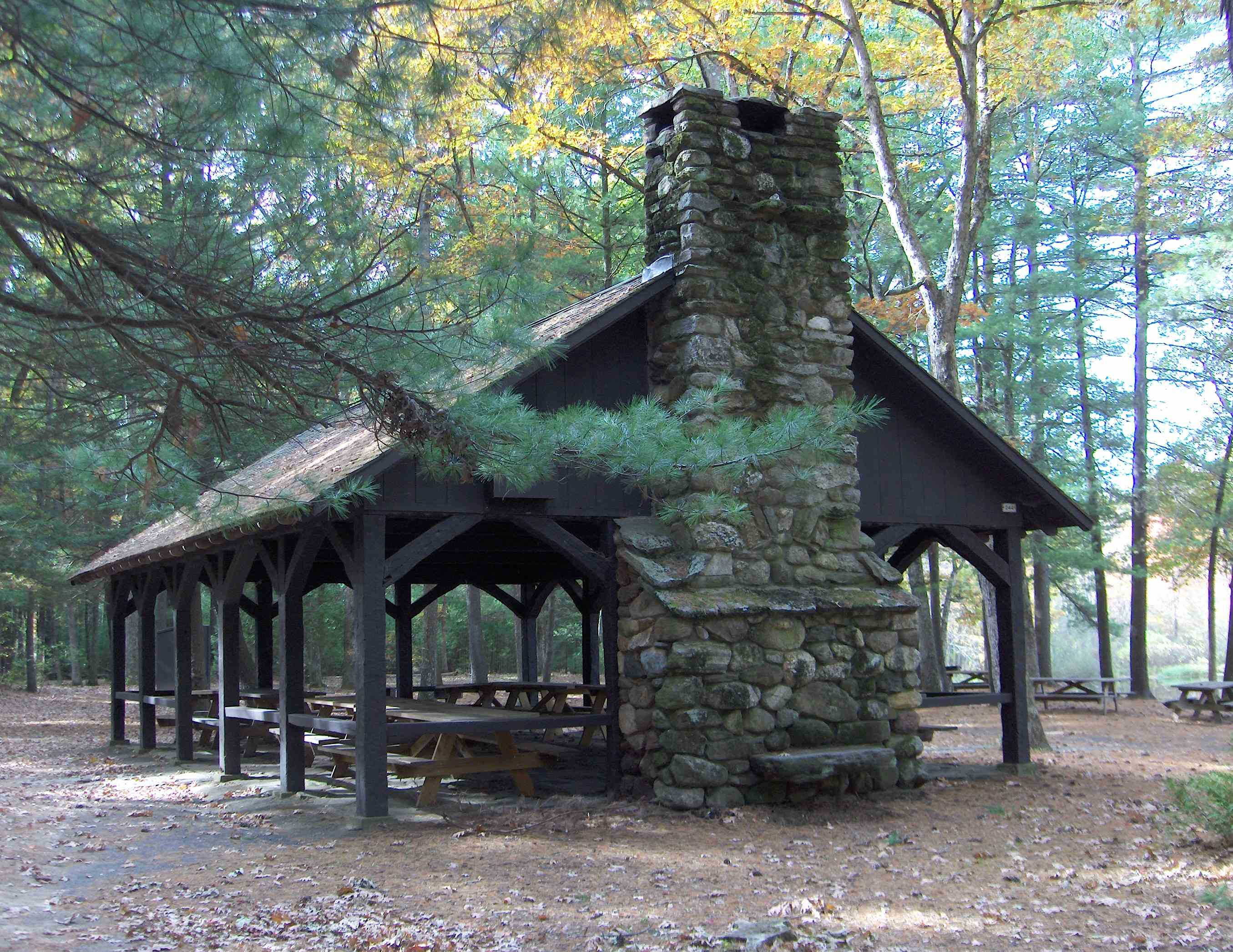 The Massacoe Forest Pavilion, a stone fireplace and picnic table shelter in the Stratton Brook State Park in Simsbury CT USA